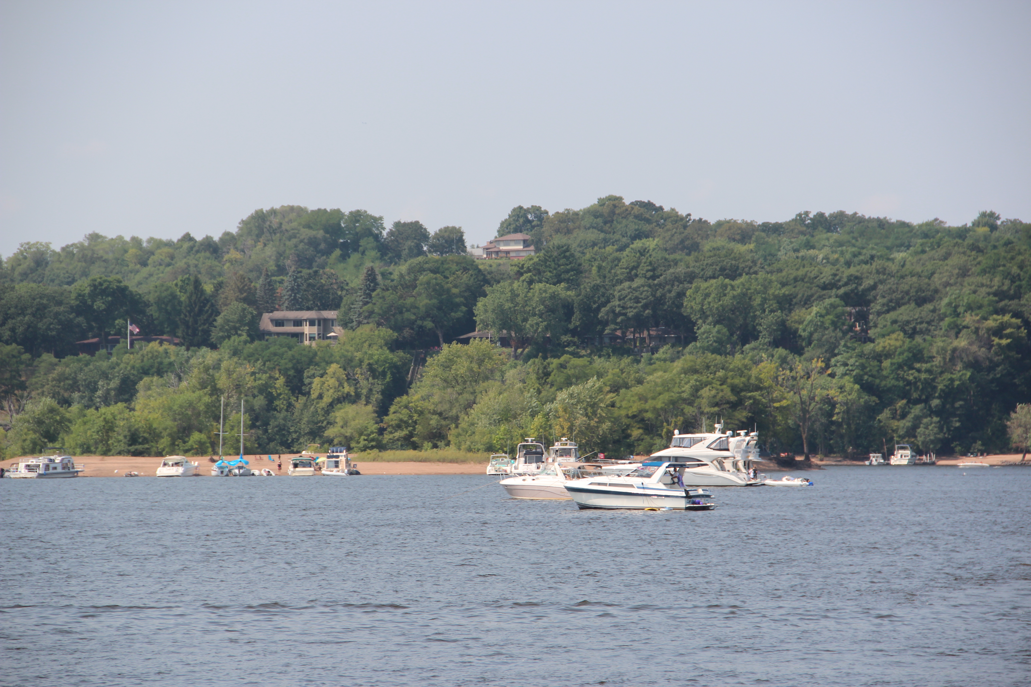 Lakeland, Minnesota seen from Hudson, WI